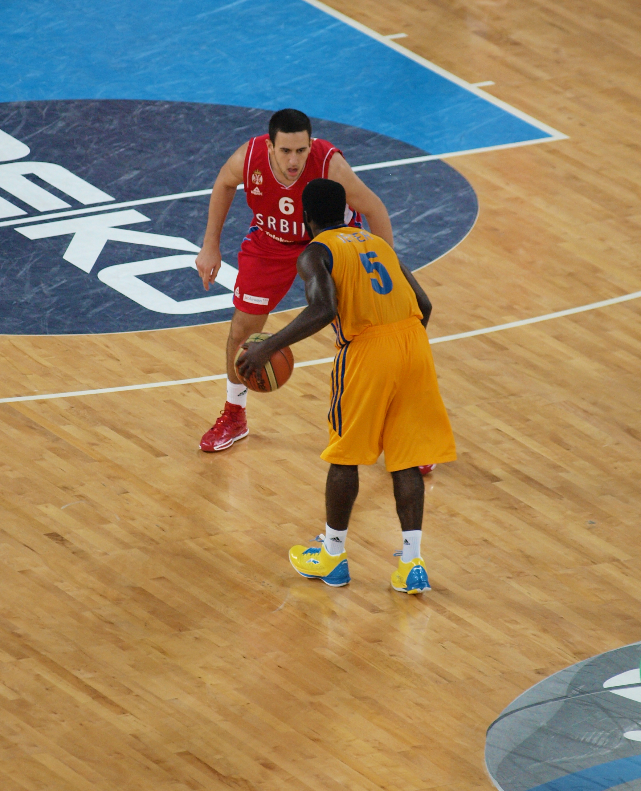 Srbija vs Ukraina, Eurobasket 2013, Slovenia. Српски (ћирилица): Меч Србије против Украјине, Еуробаскет 2013 у Словенији.